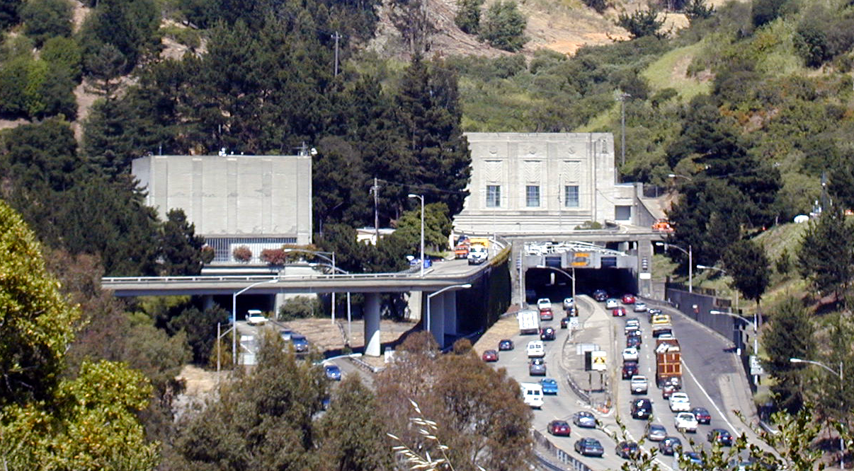 Western end of the Caldecott Tunnel in Oakland, California